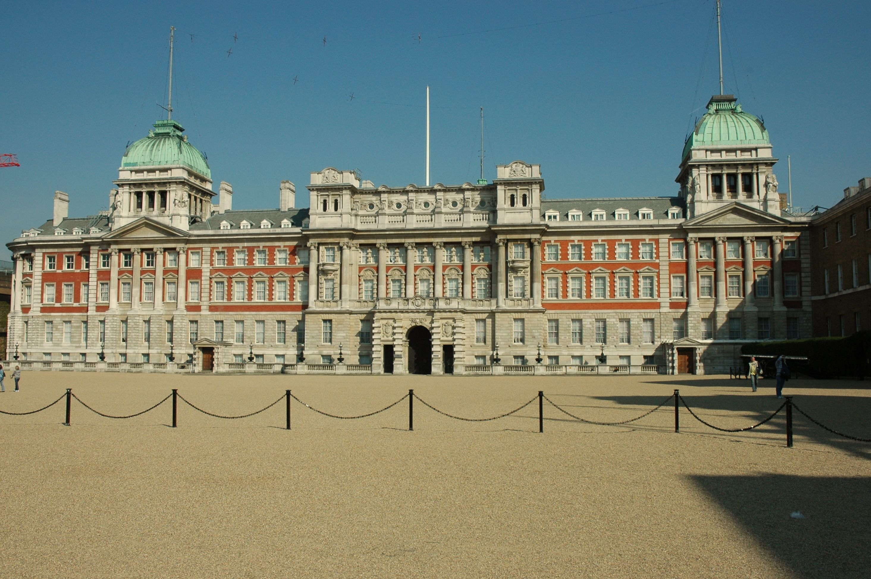 Londres - Admiralty House